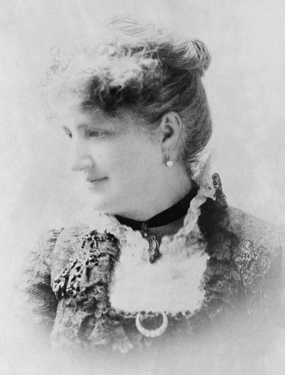 Marietta Holley (1836-1926). Photo by C.M. Bell, Washington, D.C.